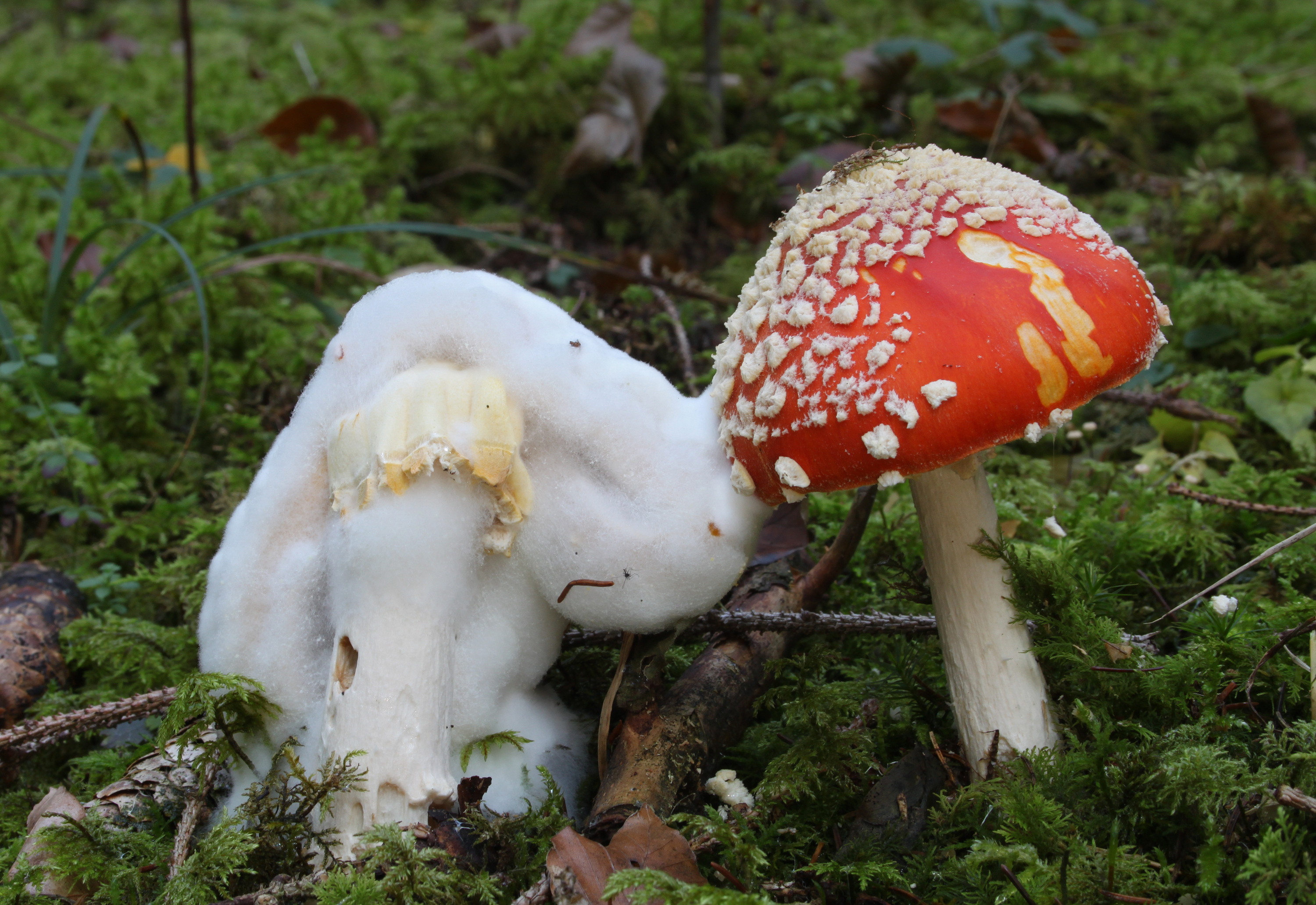 Old moldy Fly Agaric or Fly Amanita (left side) Amanita muscaria, Family: Amanitaceae, Location: Germany, Eggingen